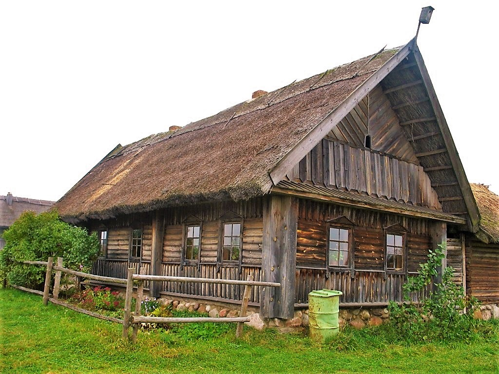 State museum of folk architecture and life, Belarus